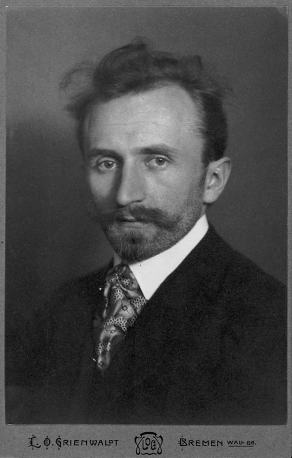 German conductor and composer Paul Scheinpflug (1875–1937), portrayed in Bremen studio of Louis Oskar Grienwaldt active in 1863–1901.